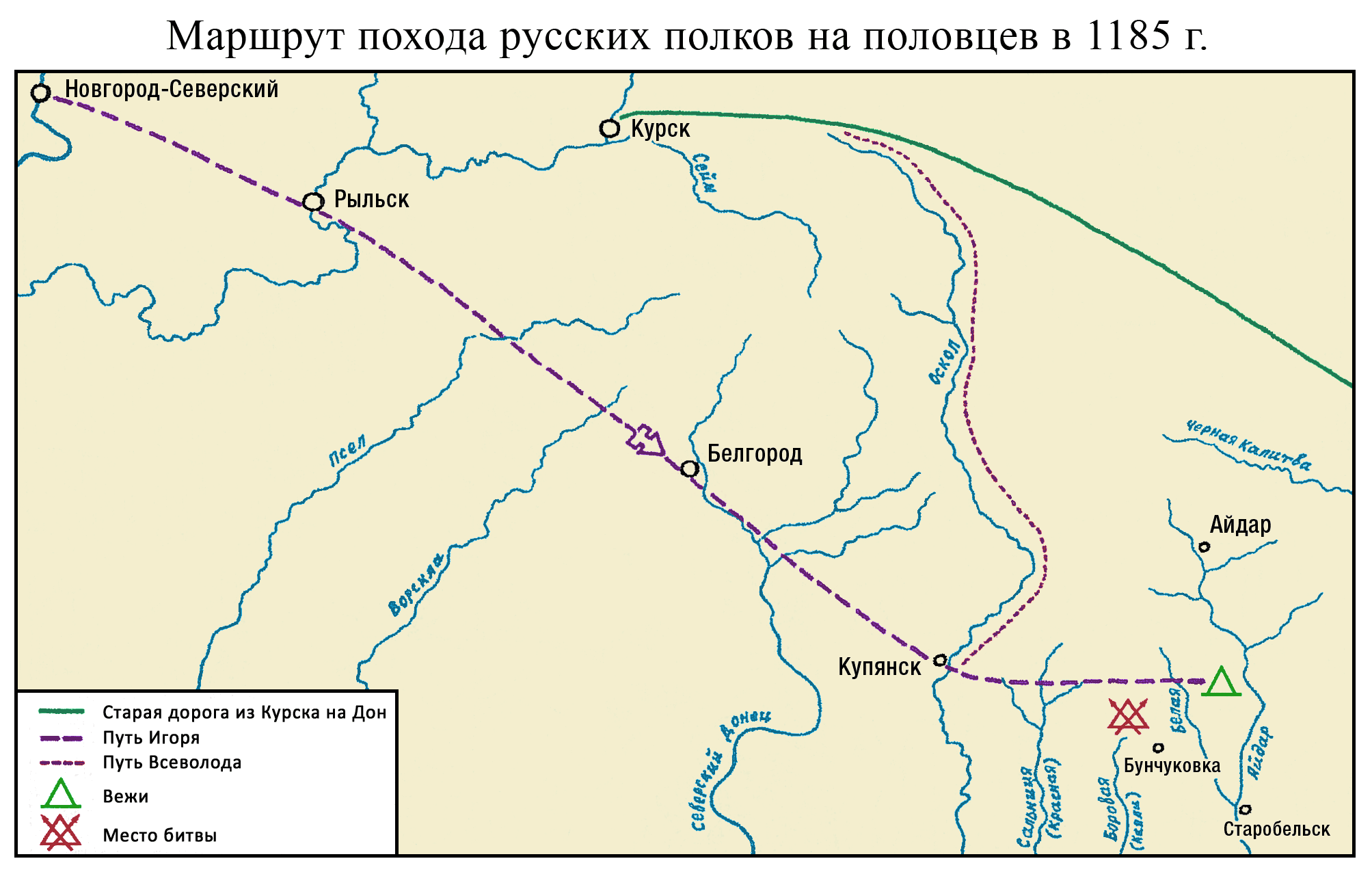 The route of march Russian troops in 1185. Version of Boris Rybakov.